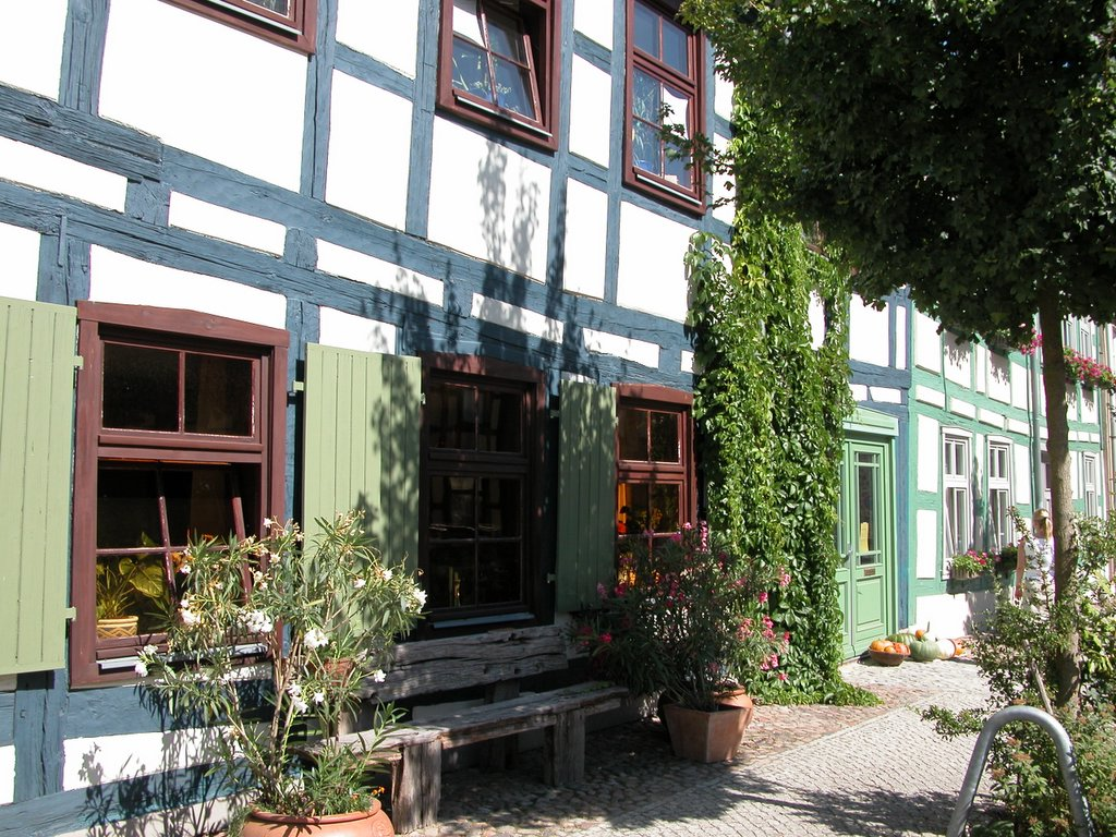 Timber framed house at the market in Templin, Brandenburg, Germany.